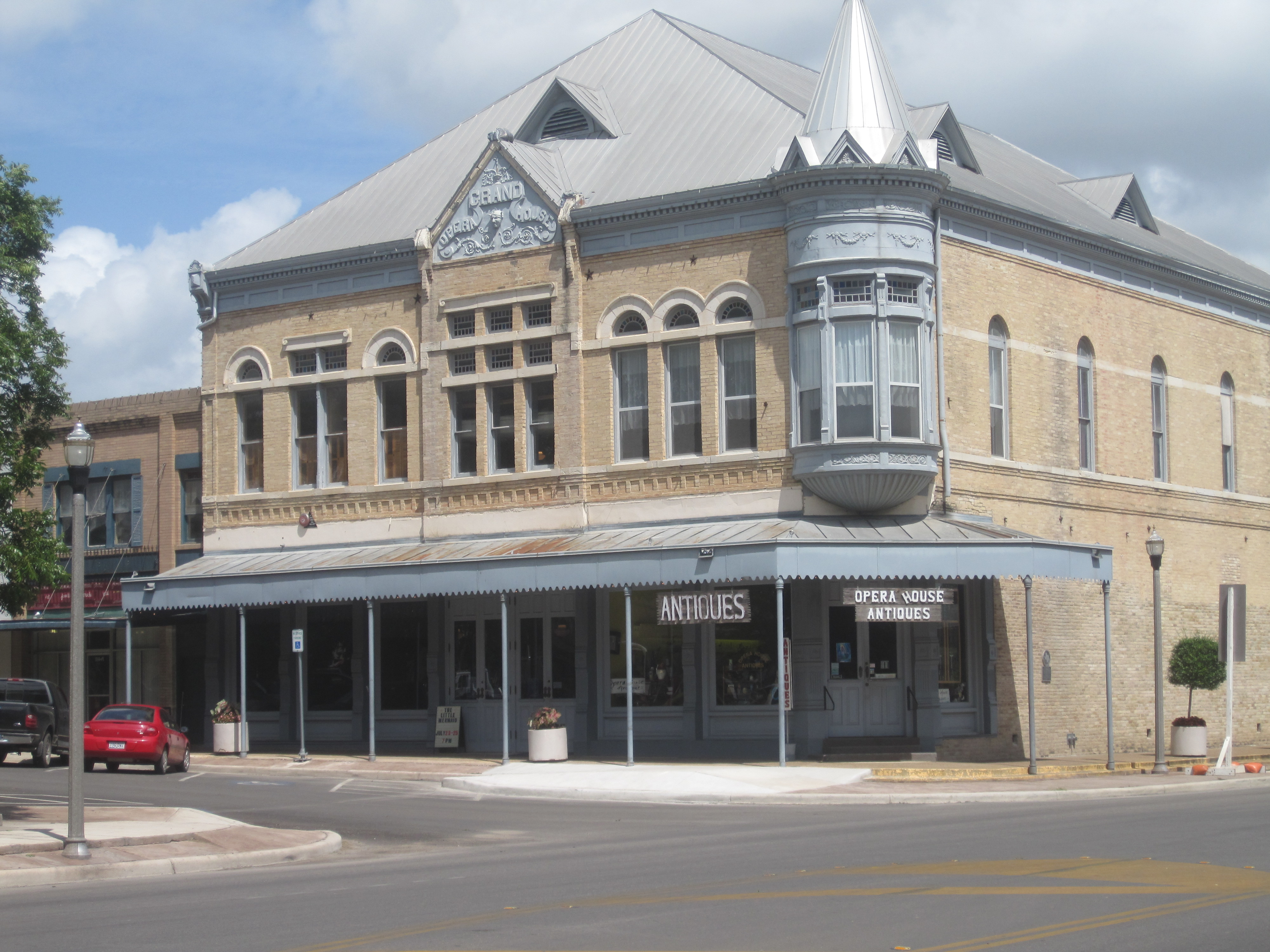 Janey Slaughter Briscoe Grand Opera House in Uvalde, restored by the late Governor and Mrs. Dolph Briscoe